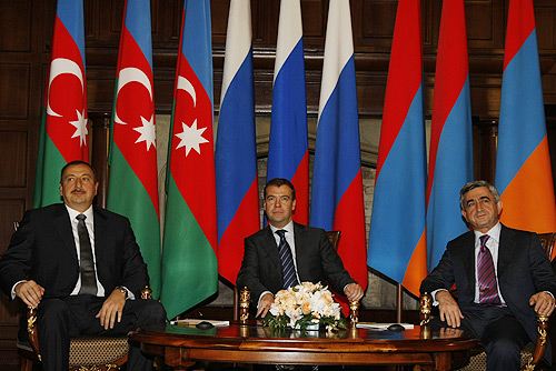 MEIENDORF CASTLE, MOSCOW OBLAST. With President of Azerbaijan Ilham Aliyev and President of Armenia Serzh Sarkisian